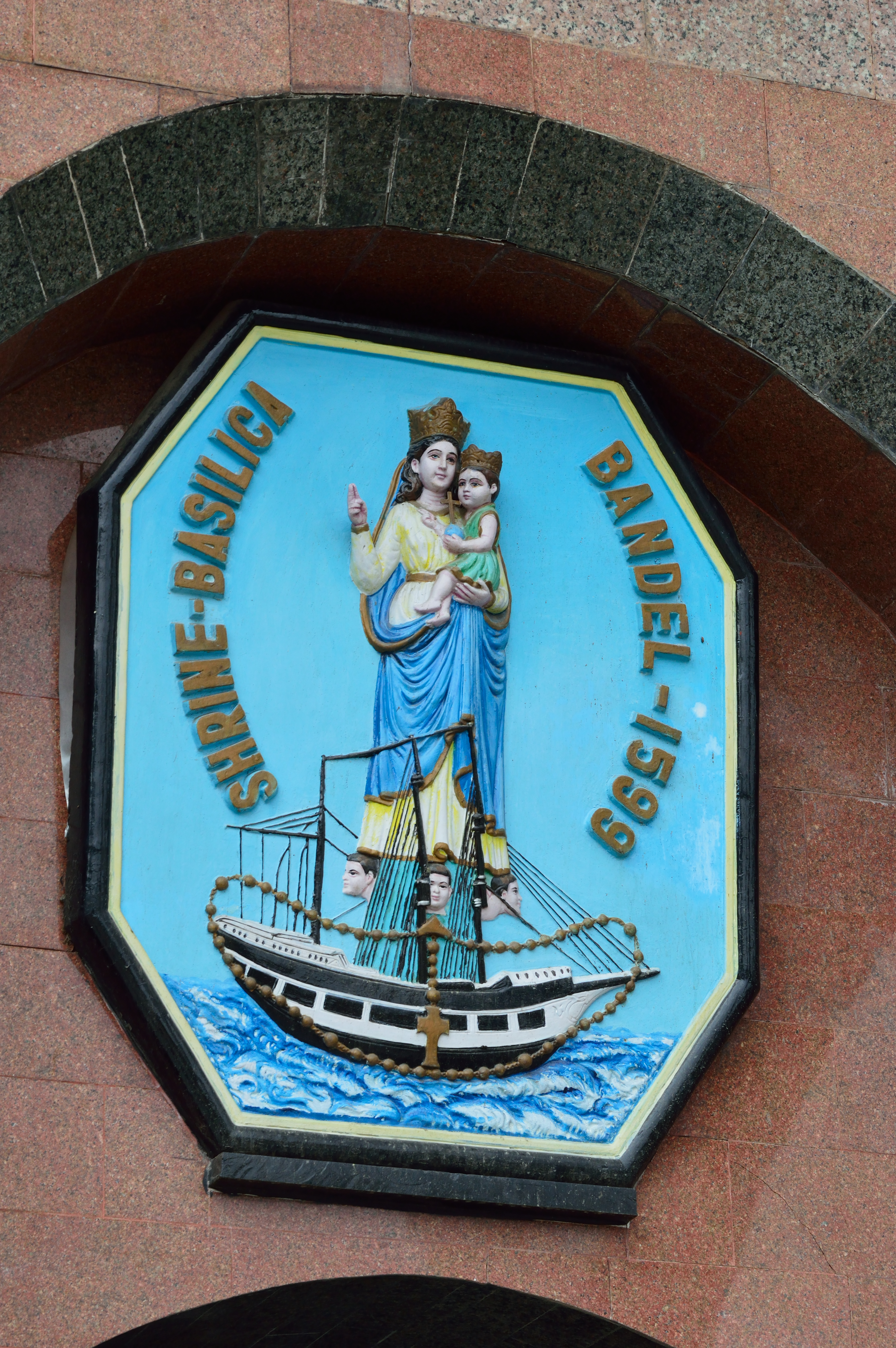 The Basilica of the Holy Rosary or Bandel Church, Bandel, Hooghly, West Bengal, India.